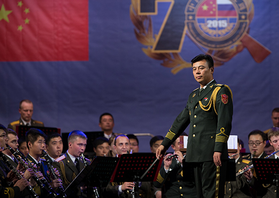 Military orchestras of the Western MD and the People’s Liberation Army of China took part in the joint concert within the closing ceremony of the Week of Chinese Culture in Saint Petersburg.